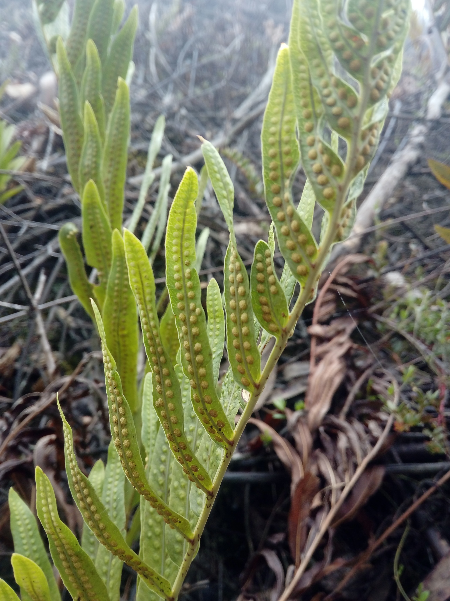 Serpocaulon sessilifolium. Species of plant.